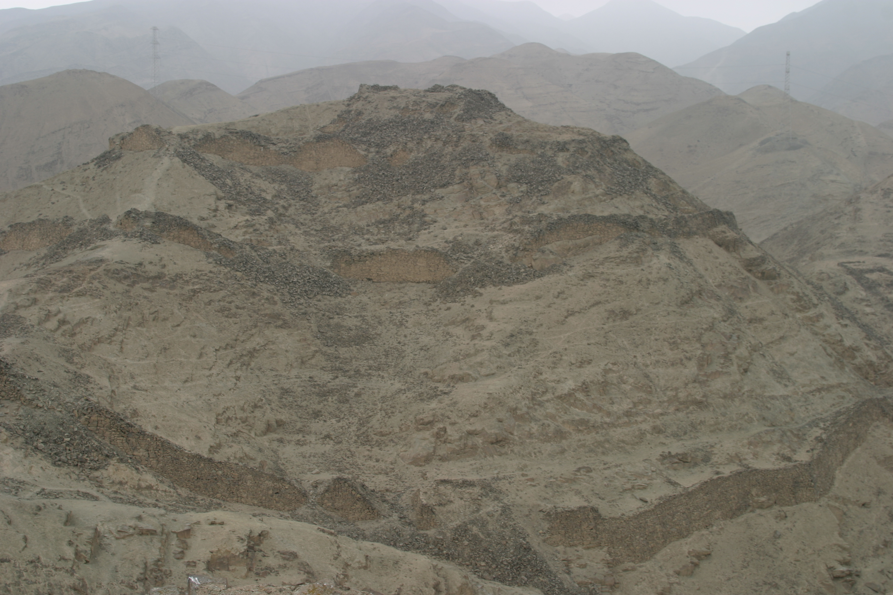 Photograph by M. Brown Vega showing one hilltop within the fort at Acaray with three concentric walls.